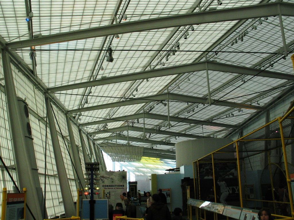 one of the exhibit halls of the NY Hall of Science